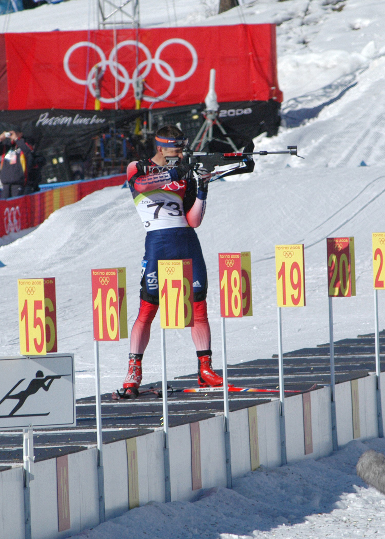 Spc. Jeremy Teela takes aim at one of five 11.5-centimeter targets 50 meters away during the last of four firings in the Men’s 20-kilometer Individual biathlon competition at the XX Winter Olympics in Torino, Italy, Saturday. Teela missed five of the 20 targets he fired at throughout the competition, adding five minutes to his time. He finished the race 51st out of 88 competitors